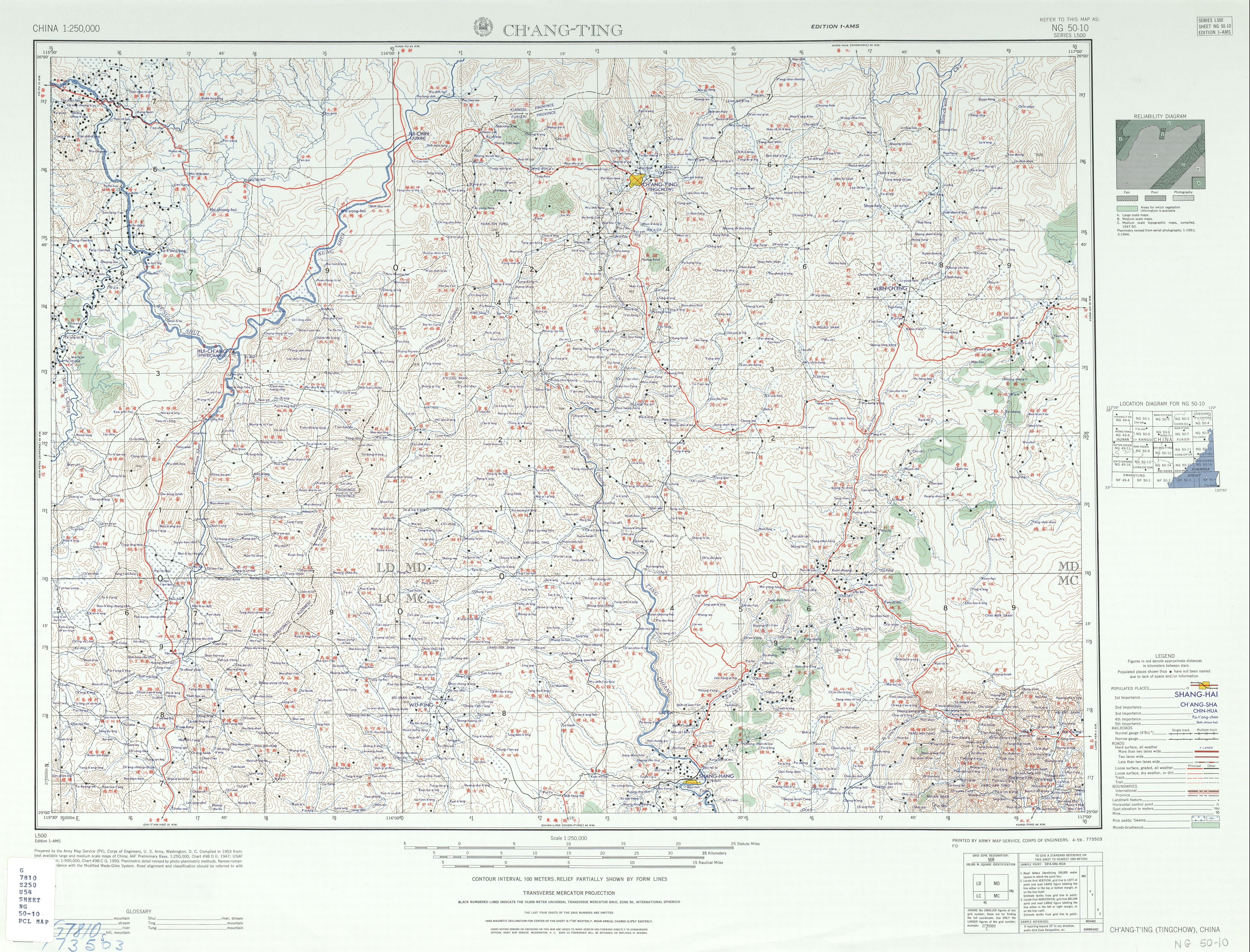 China AMS Topographic Maps